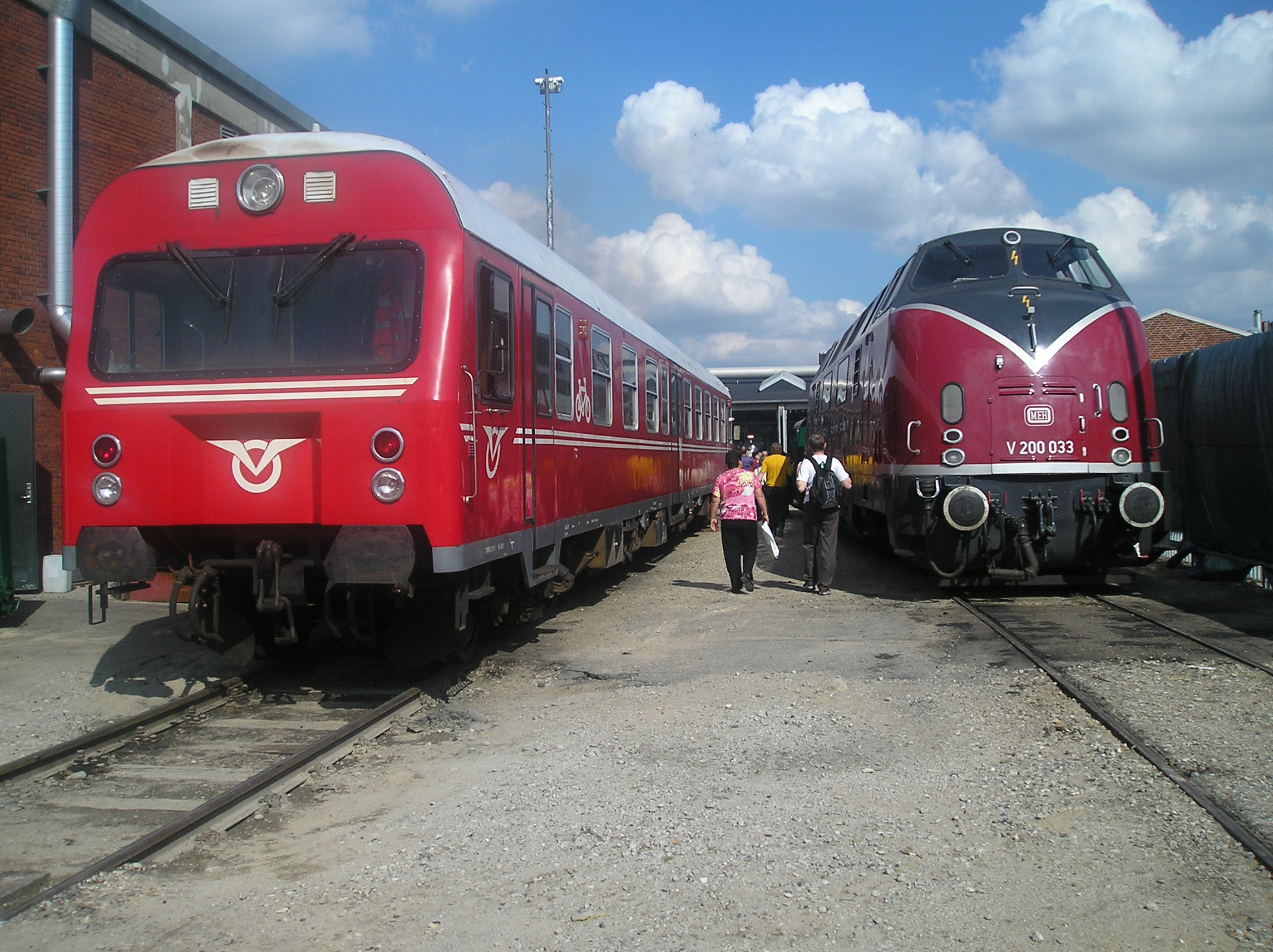 Danish motorcar OHJ MO and German diesel locomotive DB V 200 033 at Danmarks Jernbanemuseum in Odense.